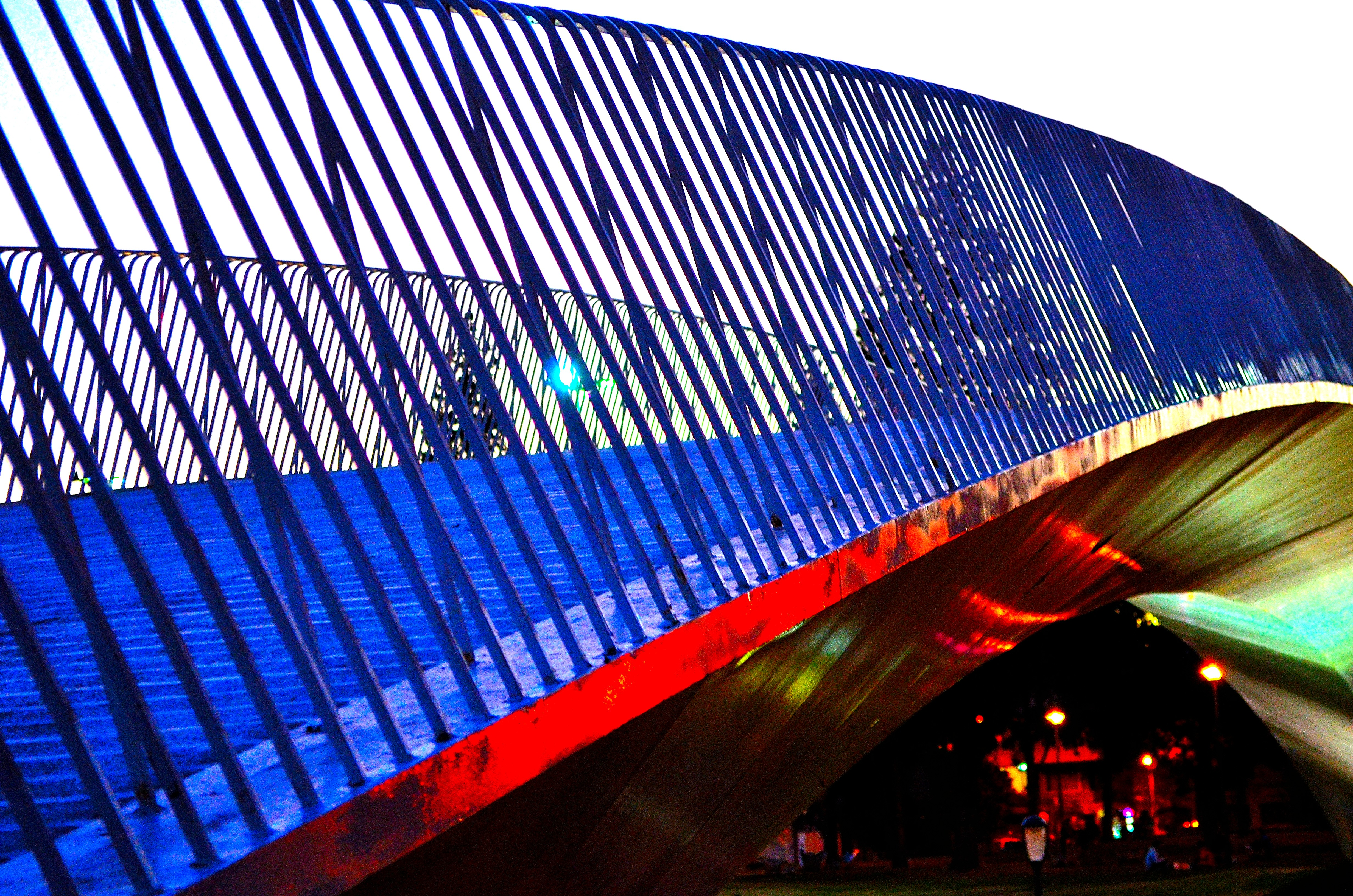 Bridge at Tejas Park, Córdoba, Argentina